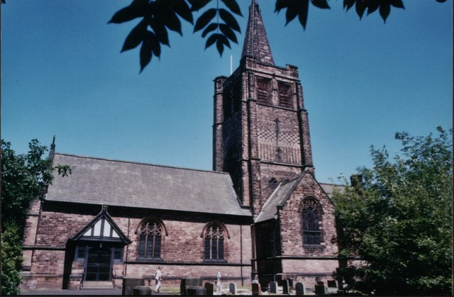 Parish church of St John the Evangelist, Higher Walton, Cheshire, seen from the southwest